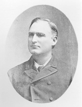 From the U.S. Senate historical office